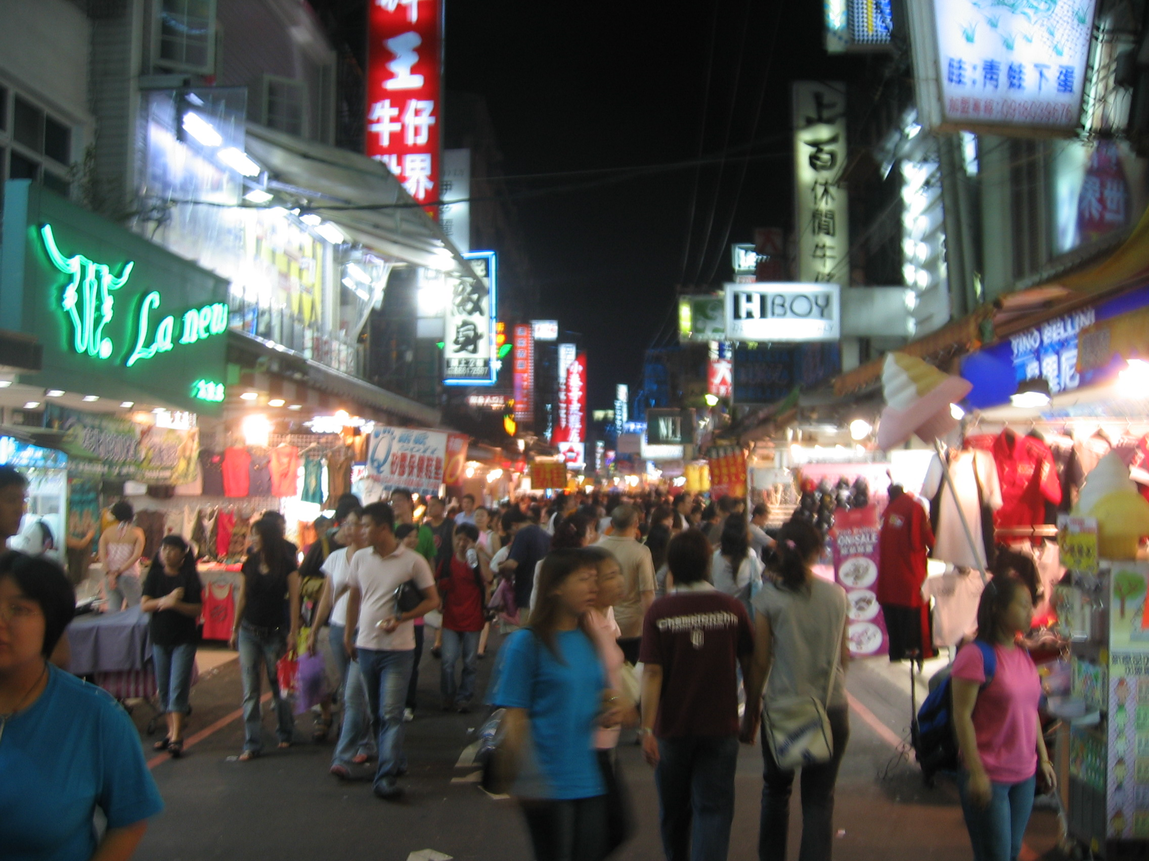 Photo taken by User:Jiang in Taipei City, Republic of China on 2005.08.02.